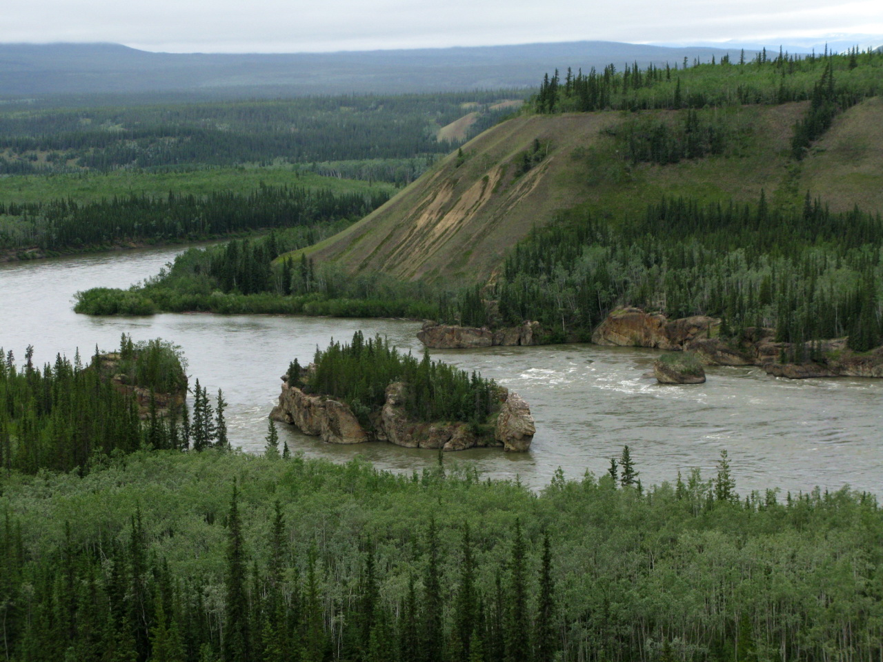 A bend in the Yukon River